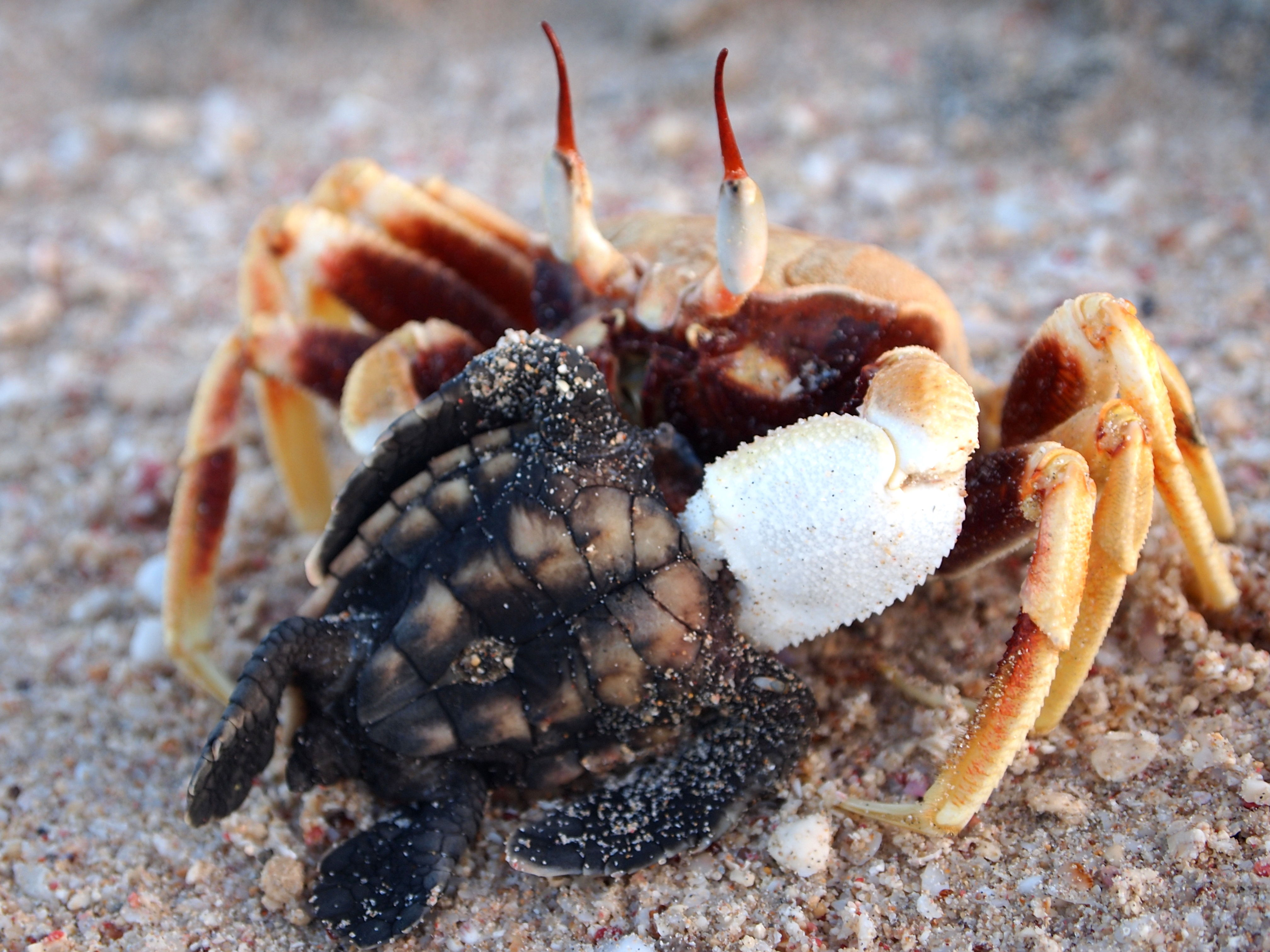 Horned ghost crab (Ocypode ceratophthalma) preying on Loggerhead (Caretta caretta) hatchling, Gnaraloo Bay Rookery, WA